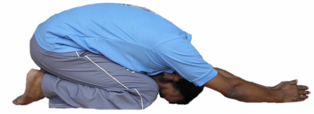 Hare-pose